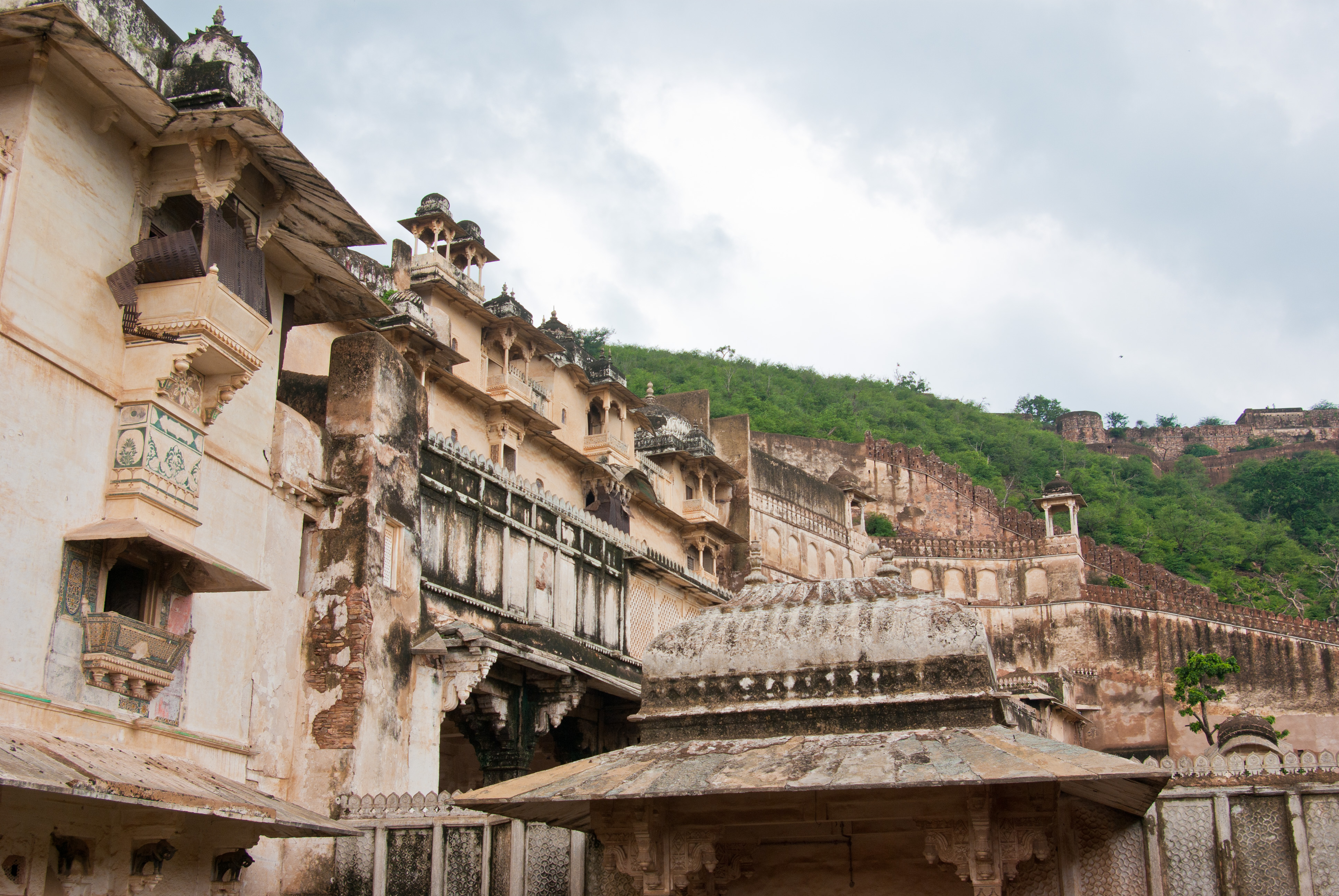 Bundi Palace